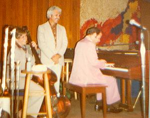 Jazz trombonist Frank Rosolino (center) at the Village Jazz Lounge in Walt Disney World